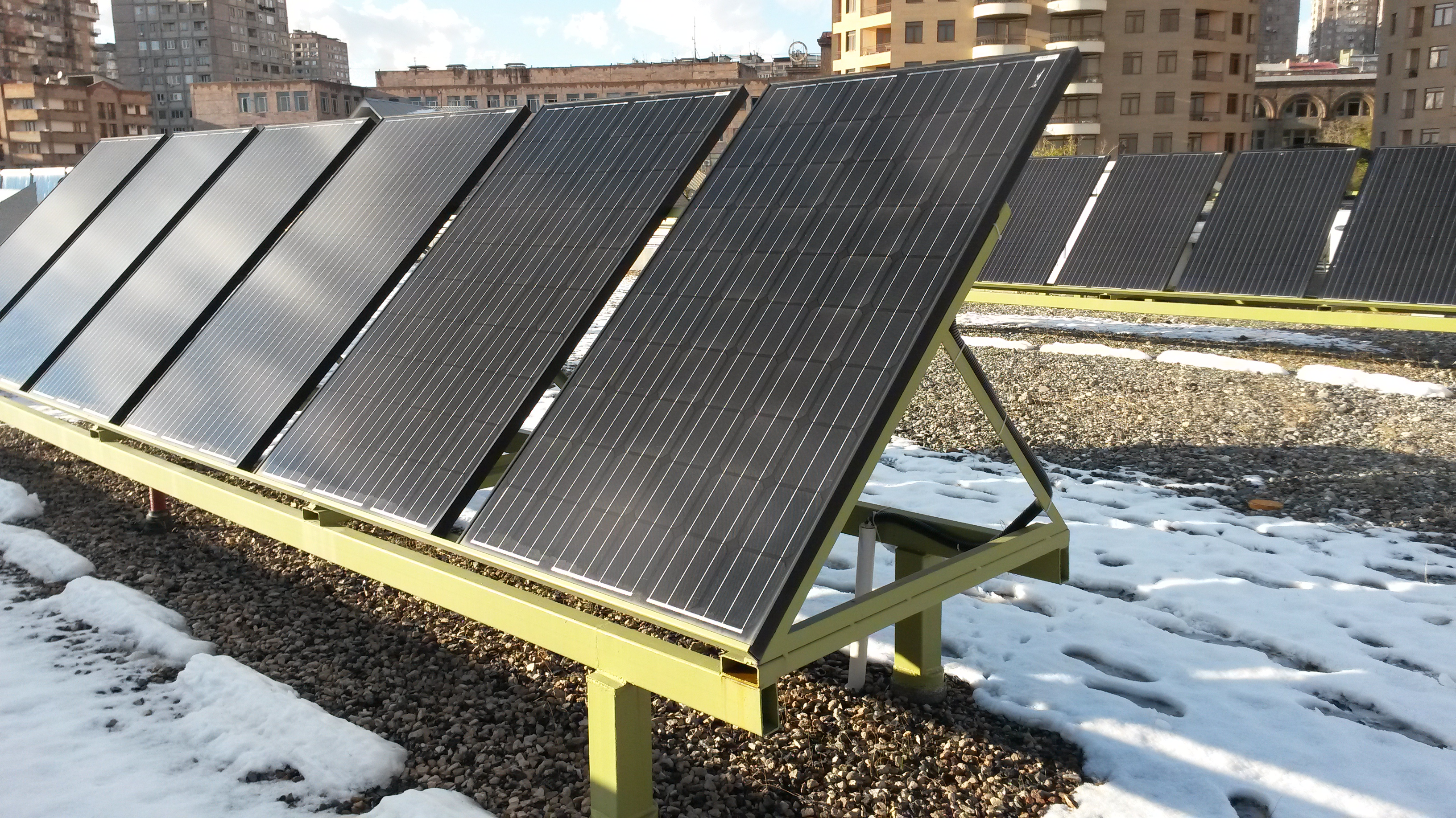 Solar panels on the rooftop of American University of Armenia